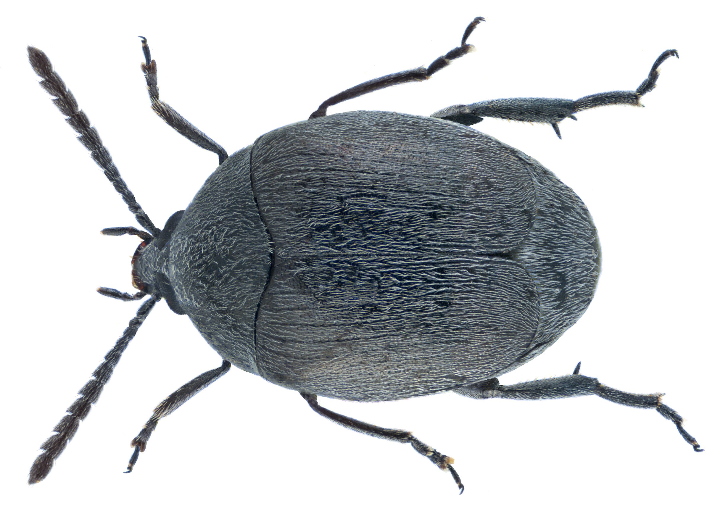 Family: Bruchidae Size: 2,8 mm (1,2 to 2,8 mm) Origin. Europe Ecologie: lives on Convolvulus arvensis, C.sepium and C. soldanella Location: Cyprus, Distr. Larnaca, Alaminos, envir. Club Aldiana leg.. U.Schmidt, 4.-14.V.2014; det. H.Wendt, 2014 Photo: U.Schmidt, 2015